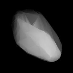 3D convex shape model of 1103 Sequoia, computed using light curve inversion techniques. J. Hanuš, J. Ďurech, M. Brož, B. D. Warner (June 2011). "A study of asteroid pole-latitude distribution based on an extended set of shape models derived by the lightcurve inversion method". Astronomy and Astrophysics 530: A134. ISSN 0004-6361. arXiv